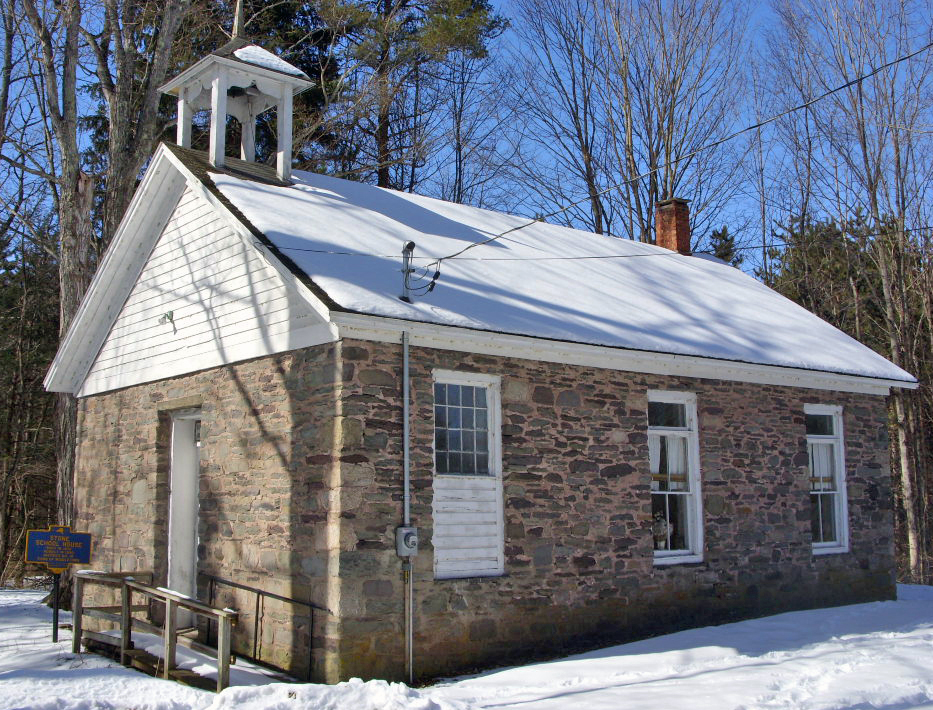 District School 10 on NY 2830 in Dunraven, NY, USA. Only building not demolished in Pepacton Reservoir area.